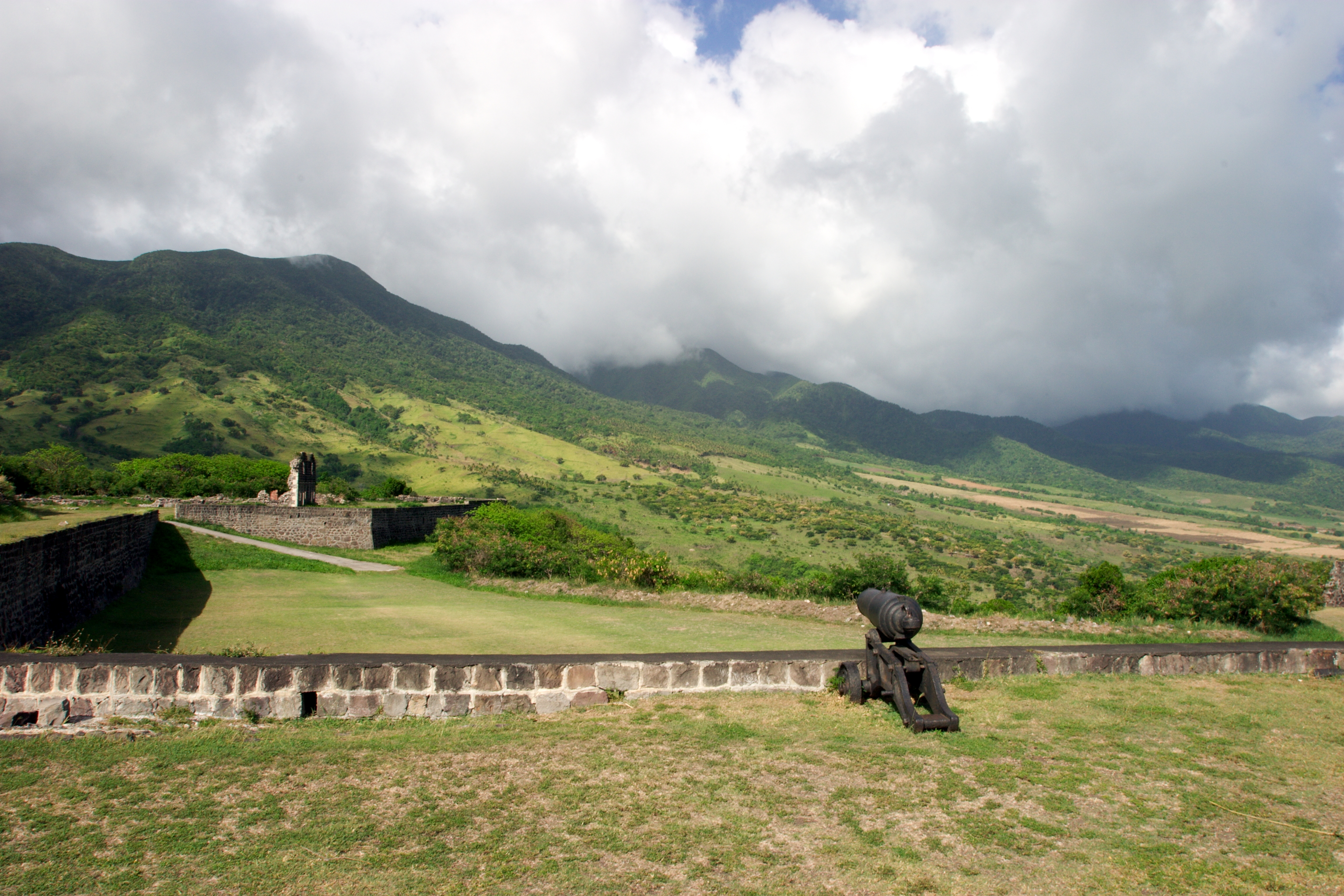 Brimstone Hill Fortress, St Kitts.